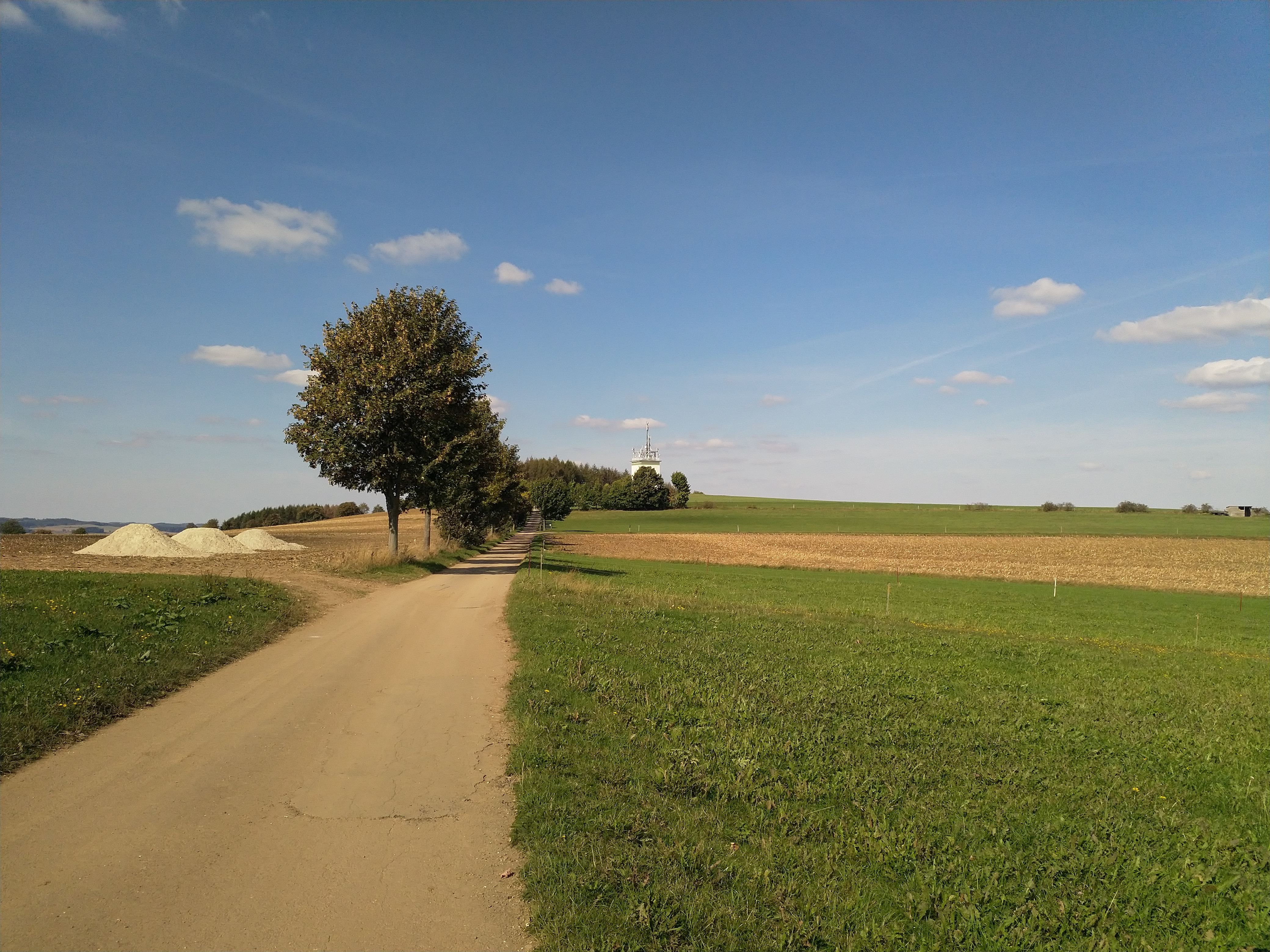 Pilzhübel, a hill near Krumhermersdorf in the municipality of Zschopau, Saxony, Germany.